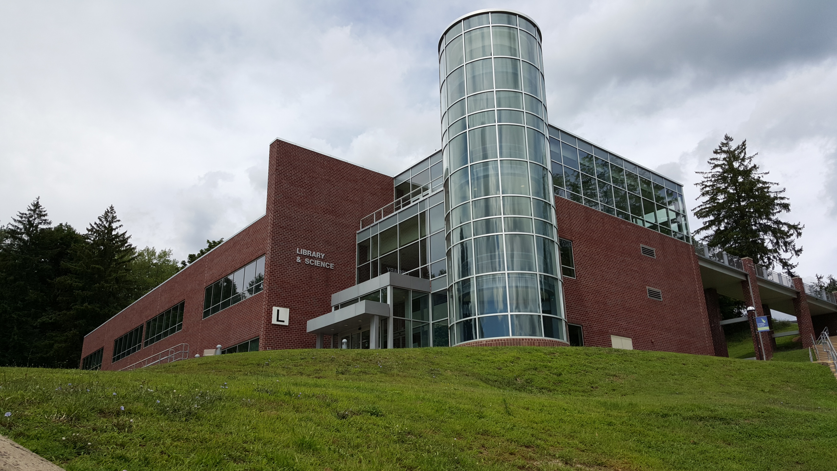 Library and science building at Sussex County Community College Newton NJ